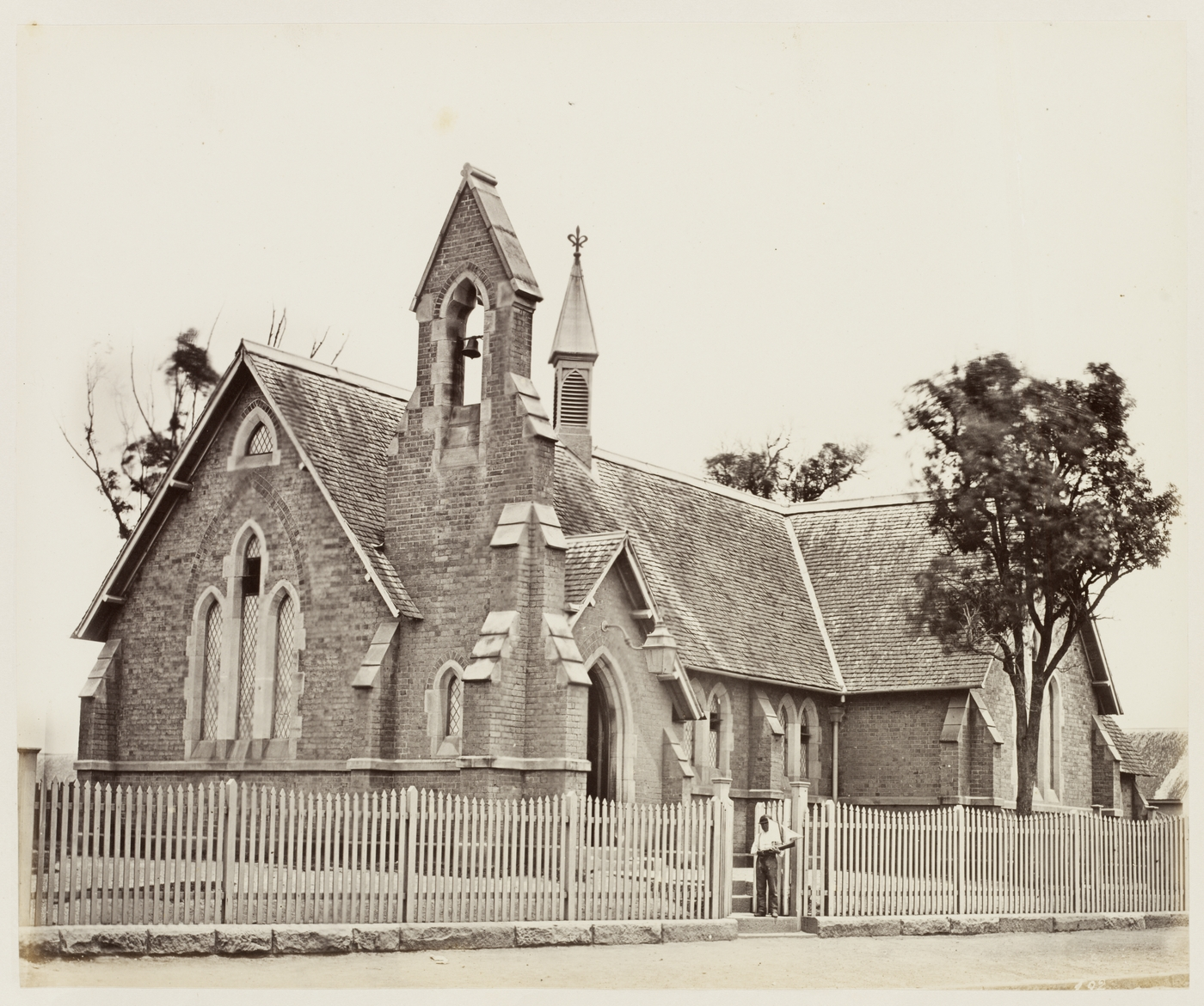 55. St. John's School SH 717